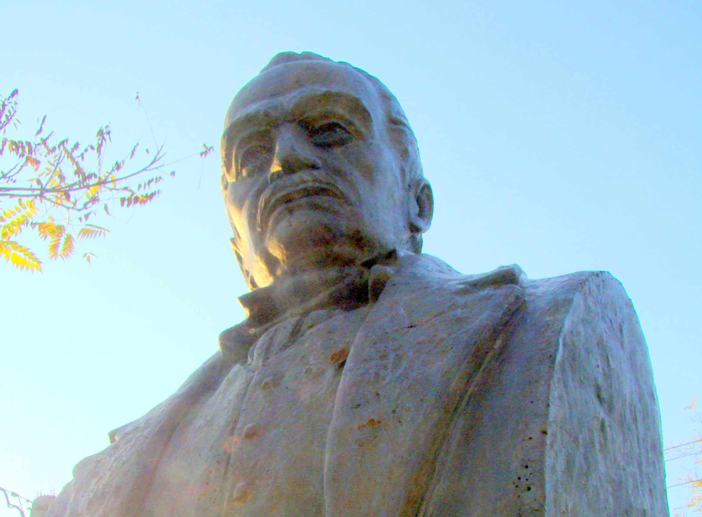 Bust of Gheorghe Șincai in Șincai, Mureș County, Romania